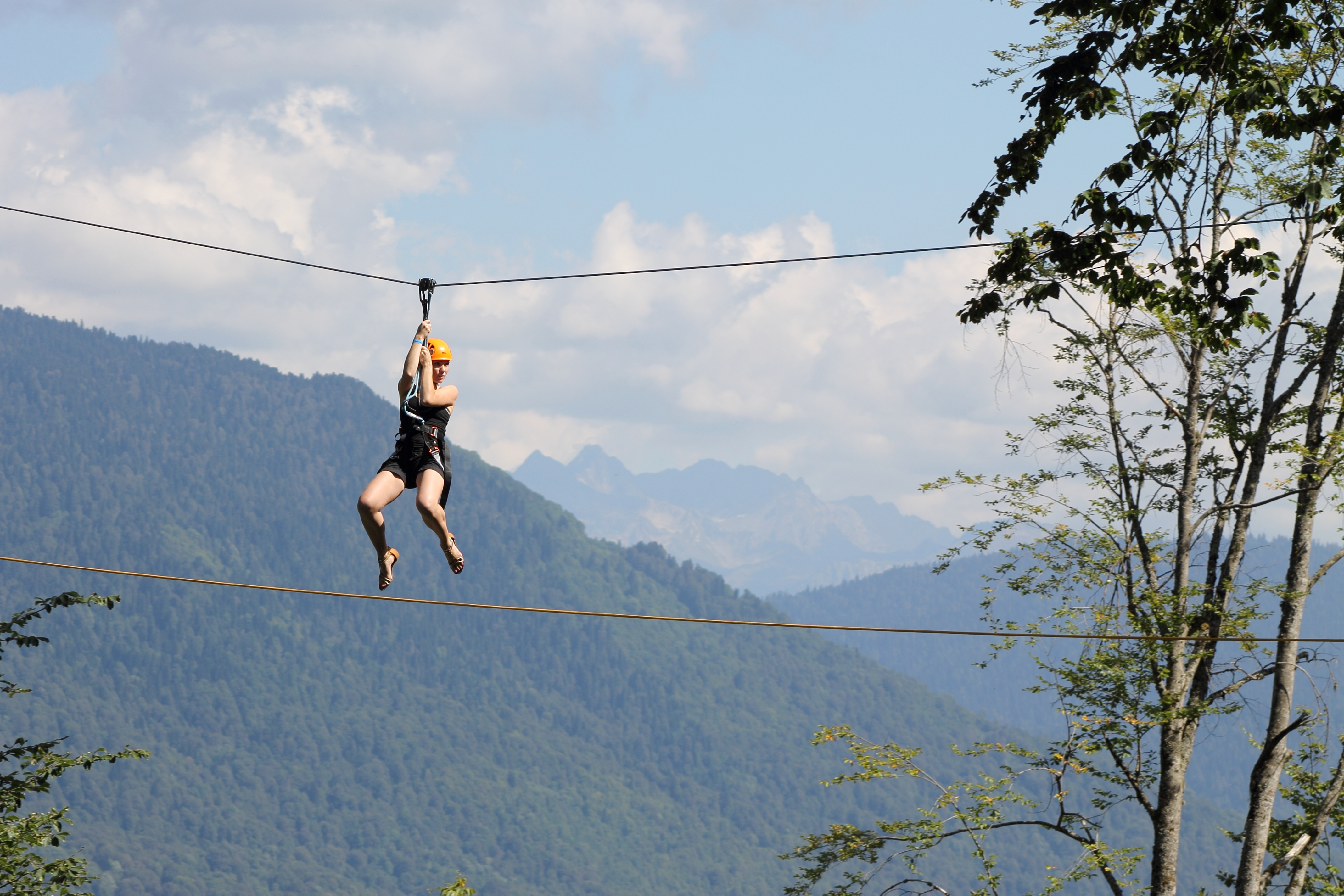 Zip line in PandaPark at Rosa Khutor alpine resort in Krasnaya Polyana, Sochi